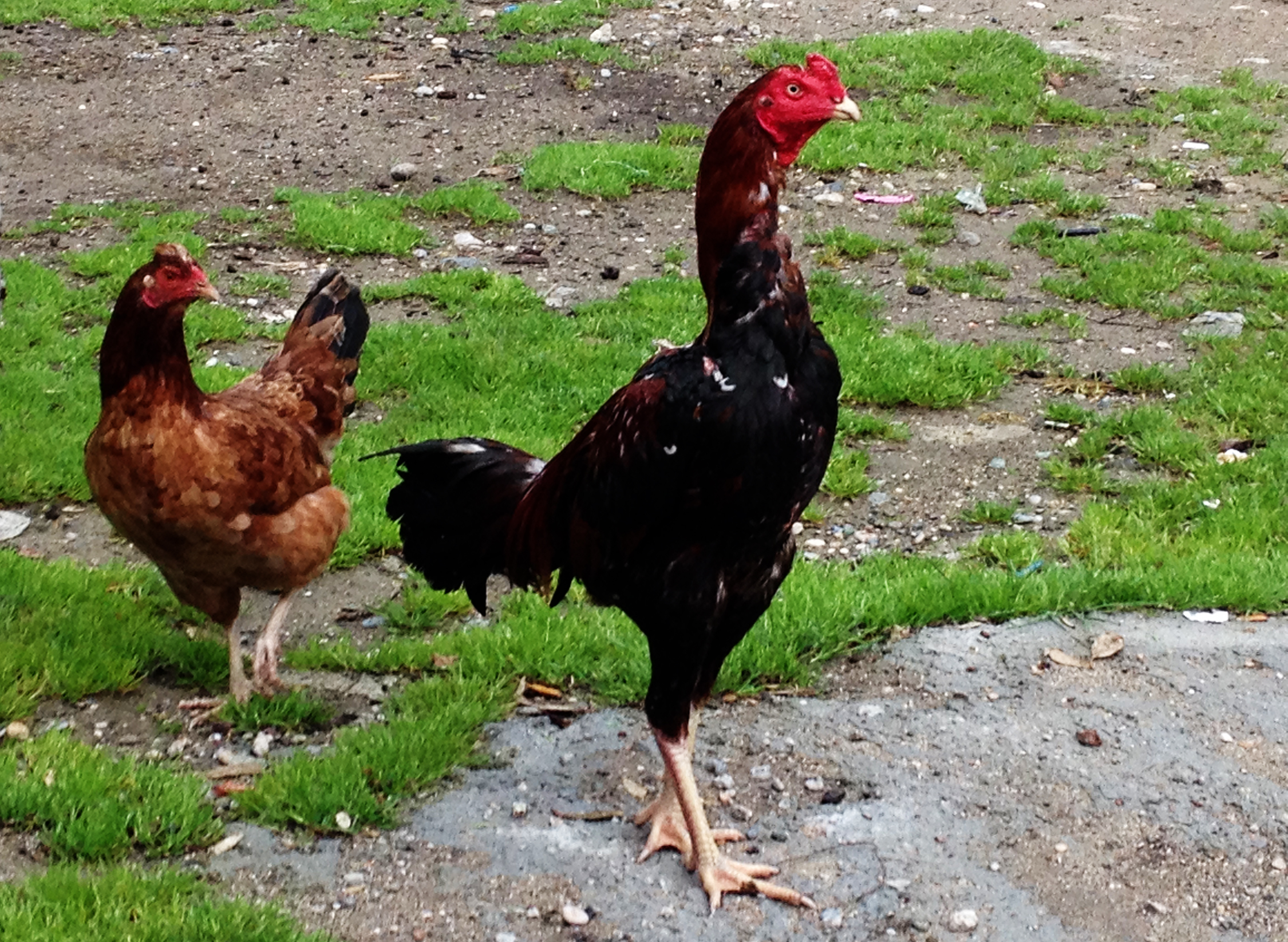 A hen and chicken of local breeds in Sarıçam - Adana, Turkey.